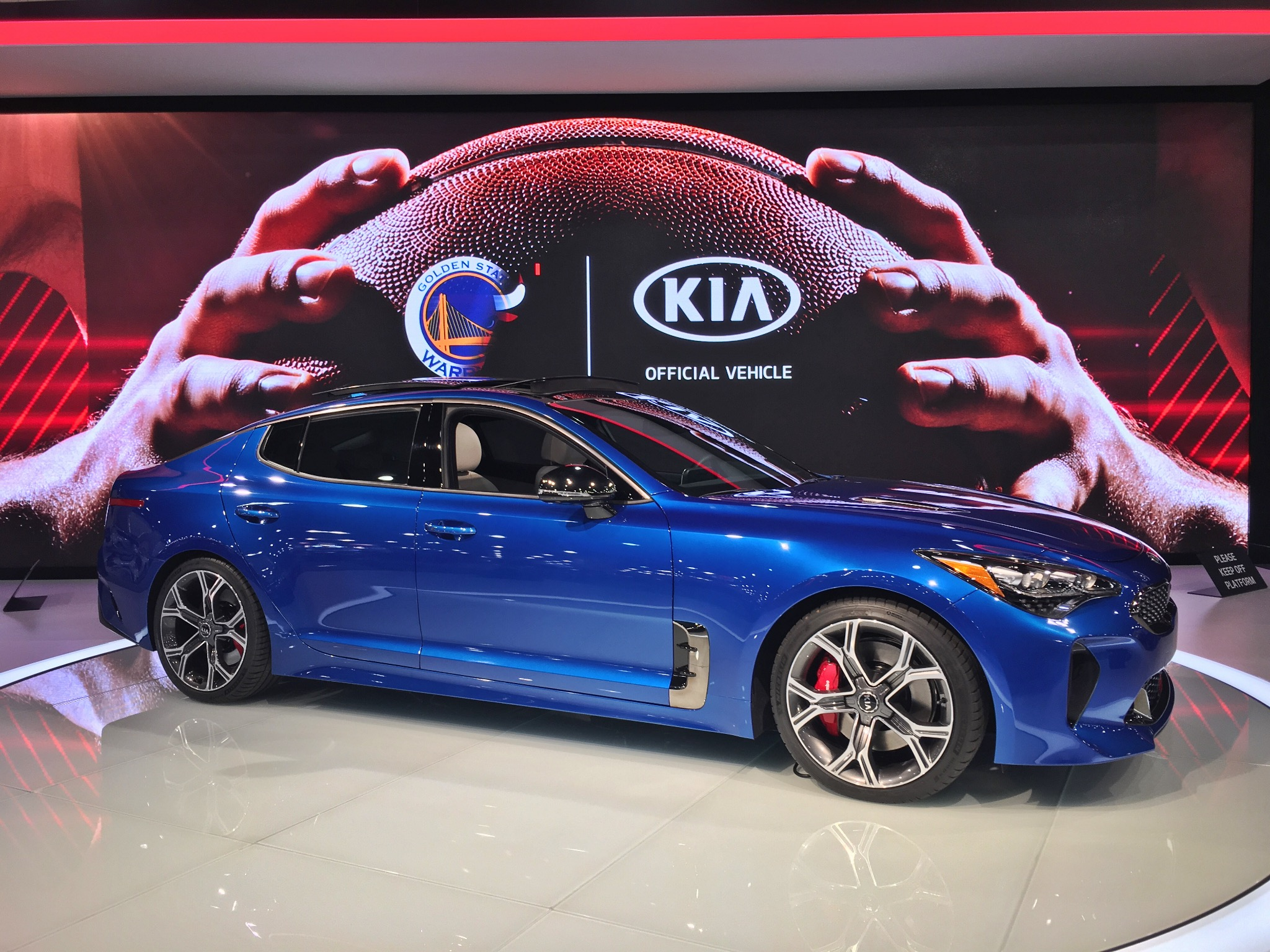 Kia Stinger at the 2017 Philadelphia Auto Show